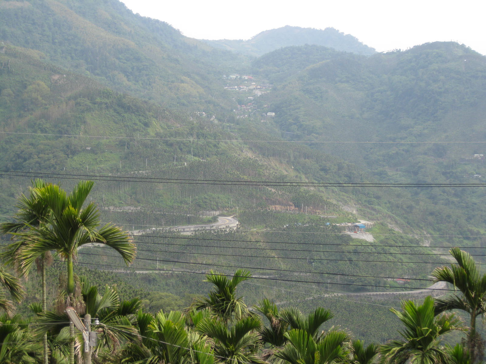 Hairpin Bend on the Alishan Highway between Gongtian and Gongxing.It's called "Wu-Wan-Zai".